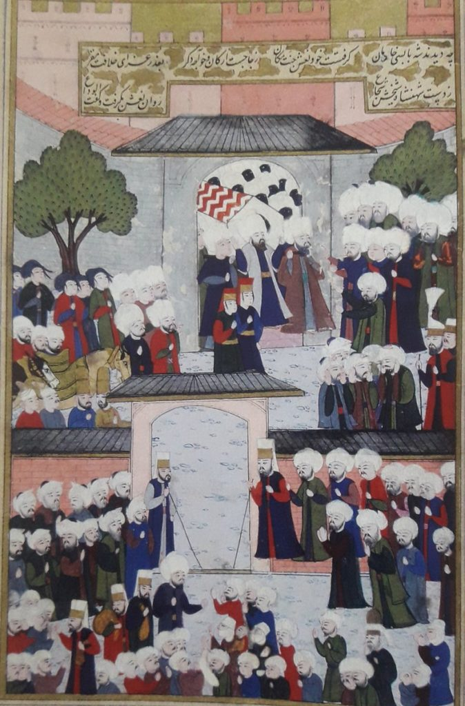 Nurbanu's burial, one of 95 miniatures in Seyyid Lokman's Shahanshahnama, 1592Türkçe: Nurbanu'nun cenaze töreni, Seyyid Lokman'ın yazdığı iki ciltlik Şehinşahnâme de yer alan 95 minyatürden.